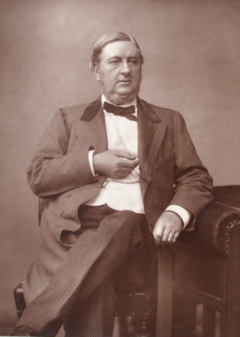 Woodburytype of Sir William George Granville Venables Vernon Harcourt (1827–1904) by Herbert Rose Barraud